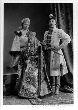 Prince Alexander Dmitrievich CHEREMETIEV , his wife Maria Féodorovna,née countess HEINDEN and their daughter Elizabeth, from the 1903 Fancy Dress Ball. Original Boissonas & Eggler